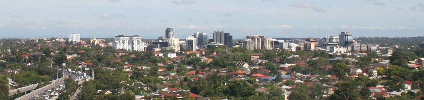 Aerial view of Parramatta's skyline. A crop of File:Looking towards Parramatta aerial.jpg.